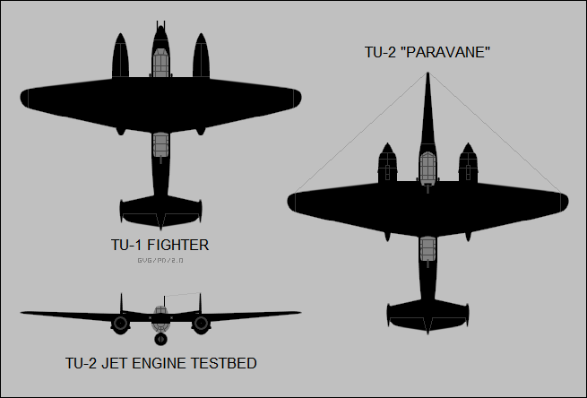 2-view silhouettes of the Tupolev Tu-1 fighter and variants of the Tu-2